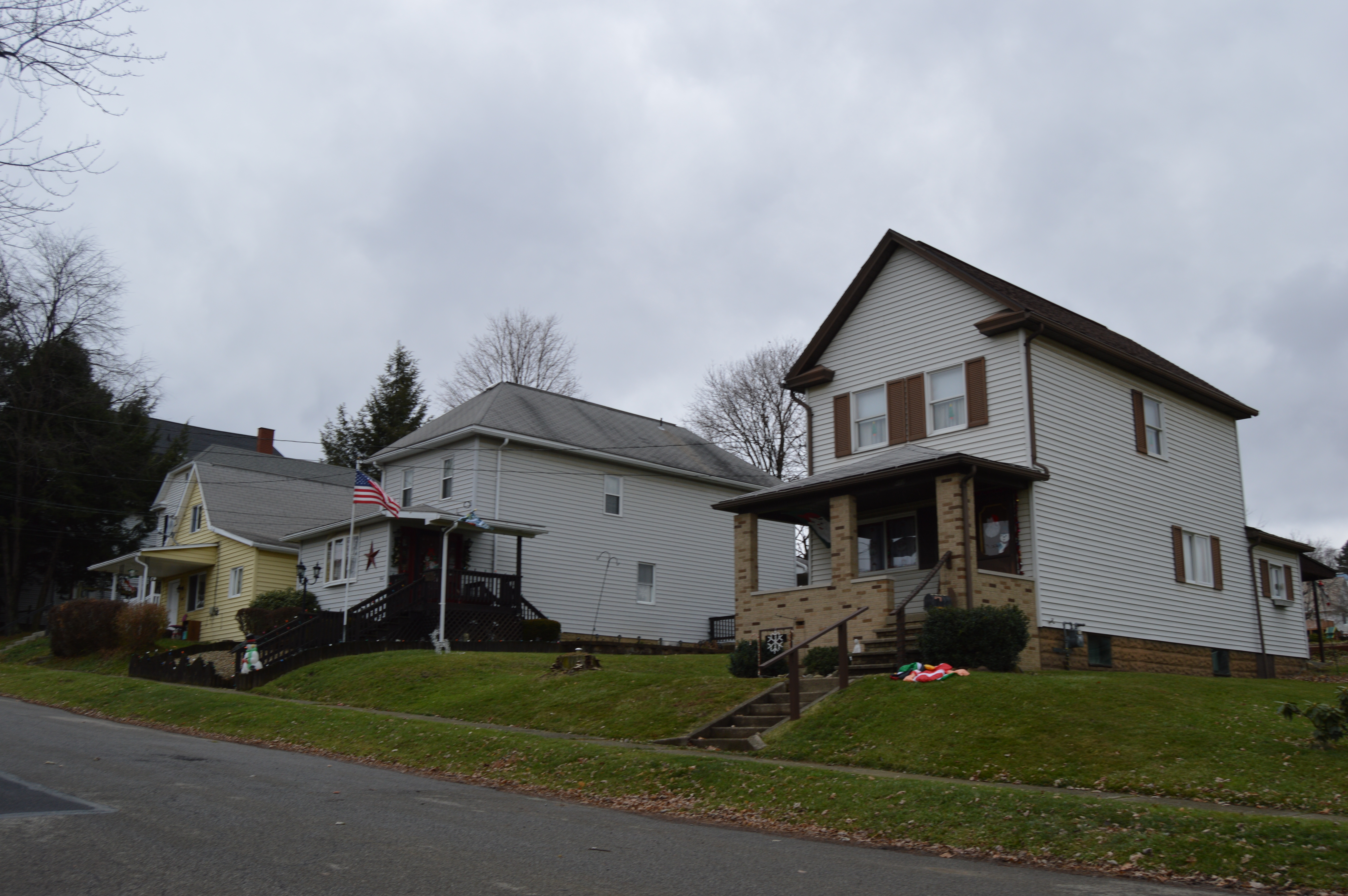 Houses on the northern side of Broadway, between Ninth and Tenth Streets, in East Butler, Pennsylvania, United States.